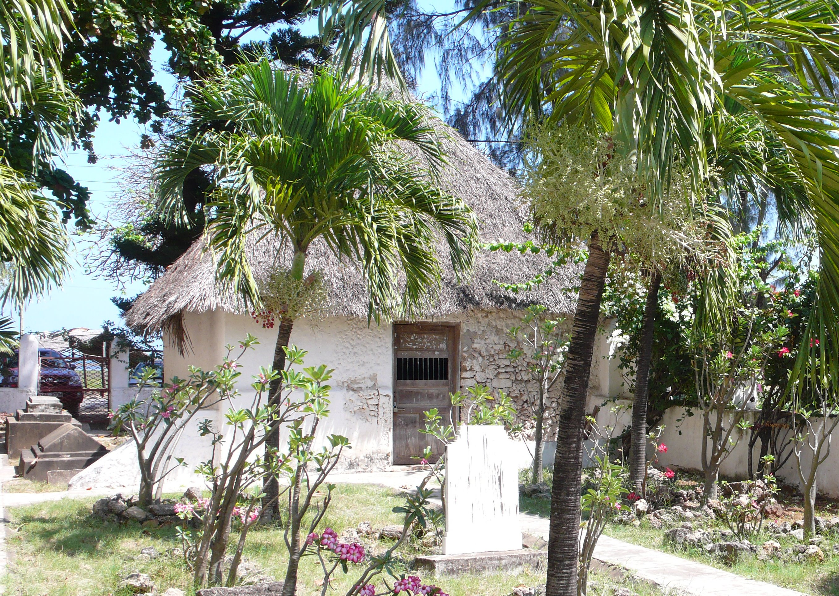 Vasco da Gama church, Malindi, Kenya. Reportedly erected by Vasco da Gama. Oldest church in East Africa.